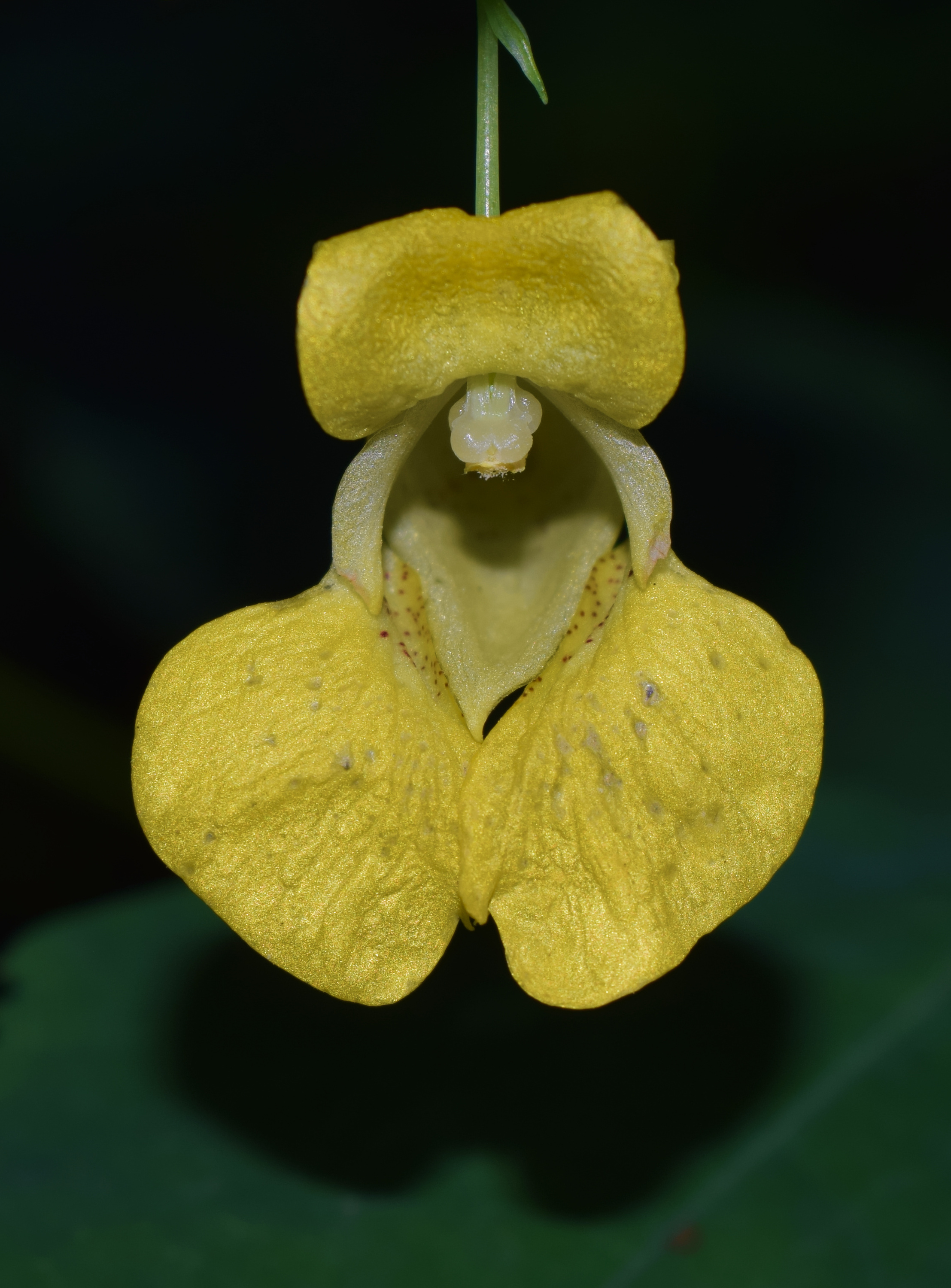 Pale jewelweed (Impatiens pallida) blooming in the rare Charitable Research Reserve.